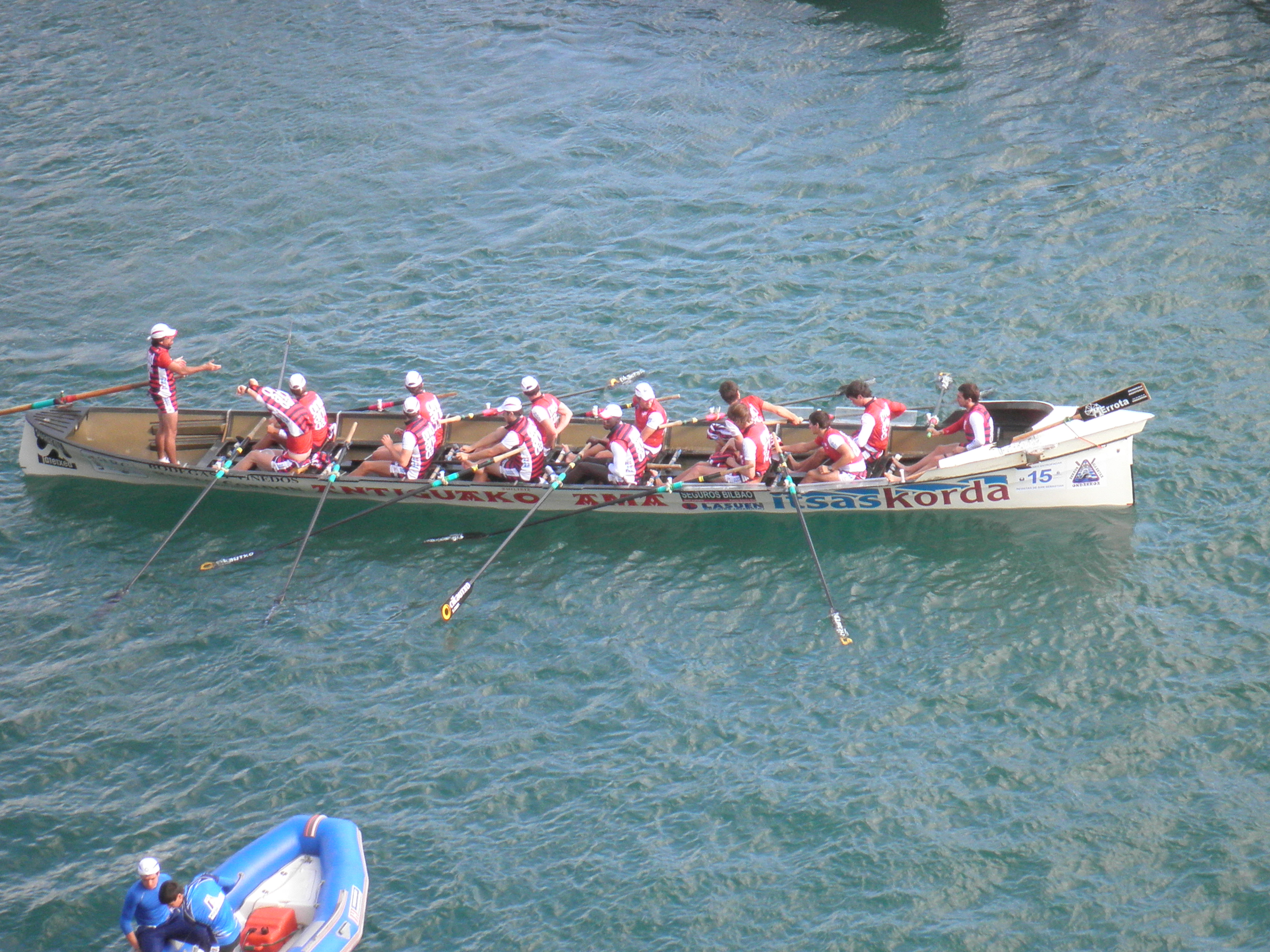 Flag of La Concha, 2012.